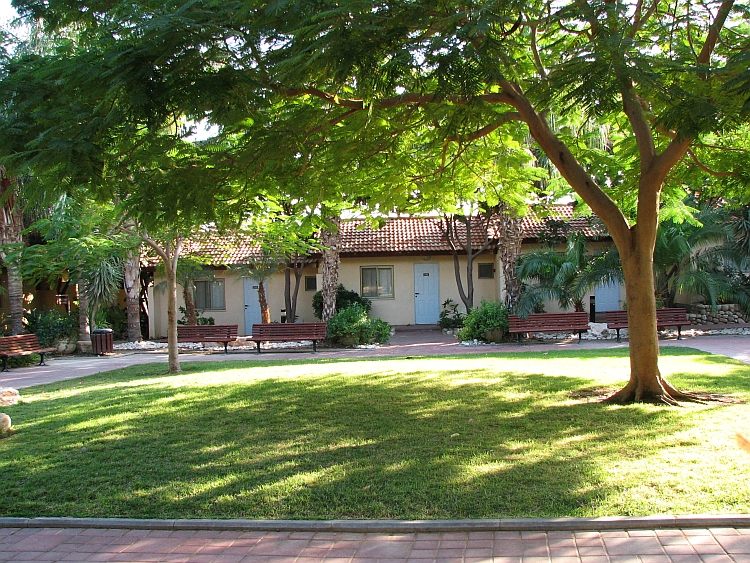 Kibbutz Almog guesthouse